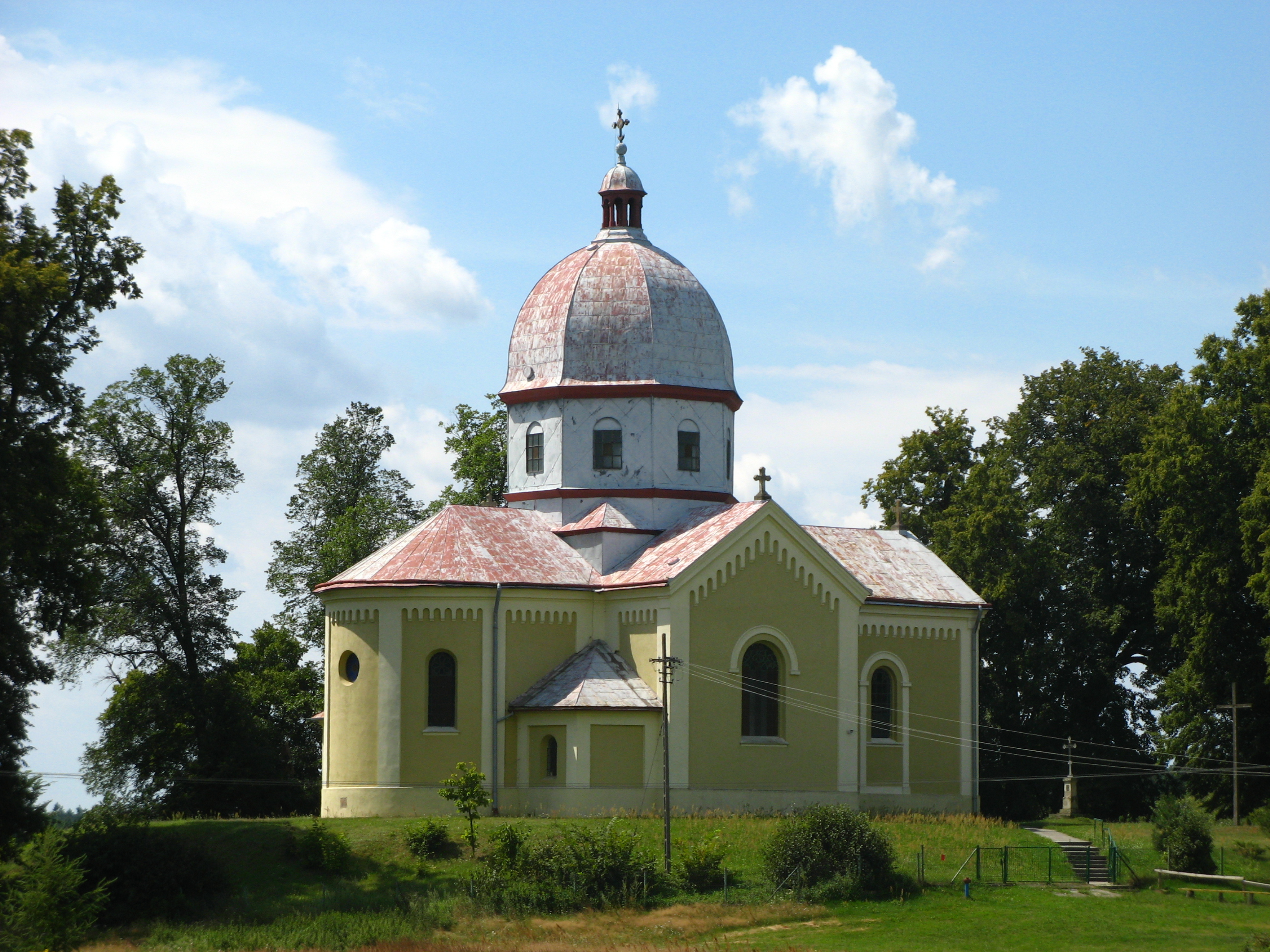 The former Uniat church St. Dimitri the Martyr, built in 1924